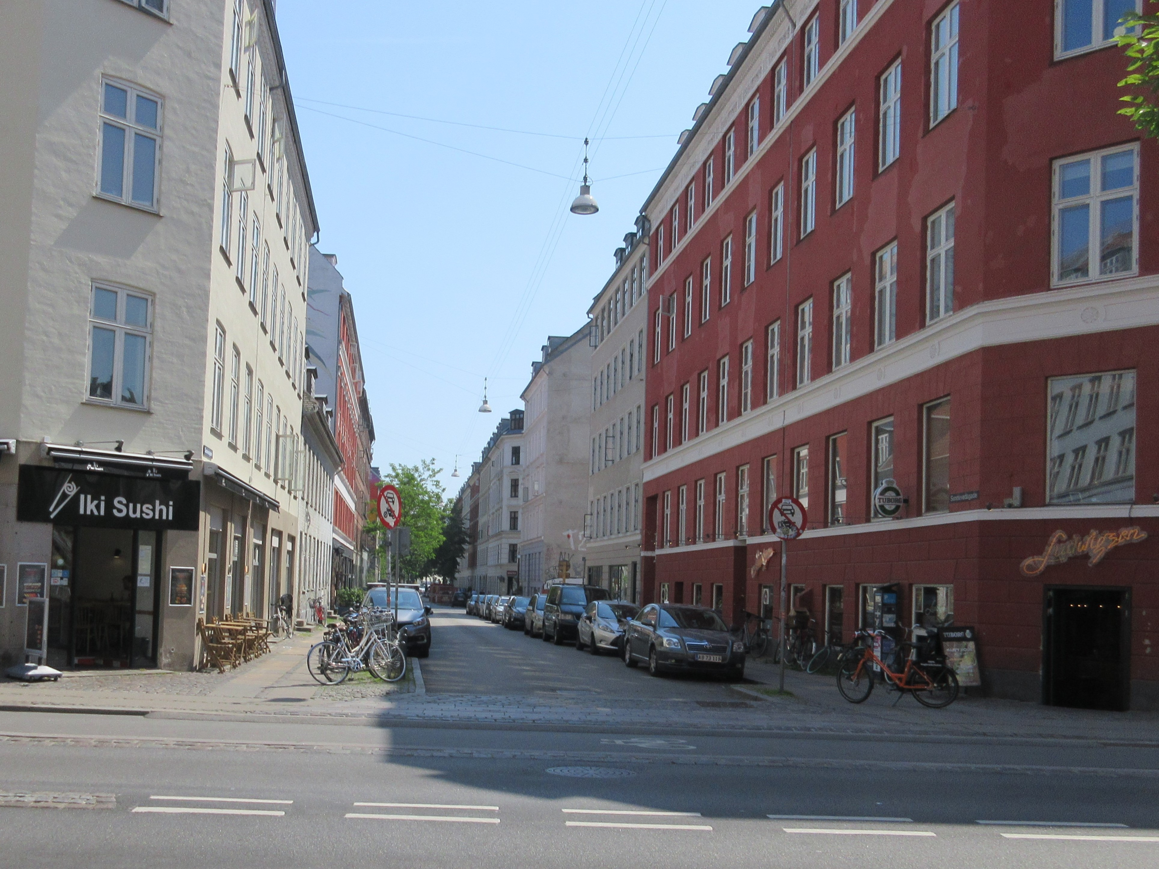 Sundevedsgade from Vesterbrogade in Copenhagen, Denmark